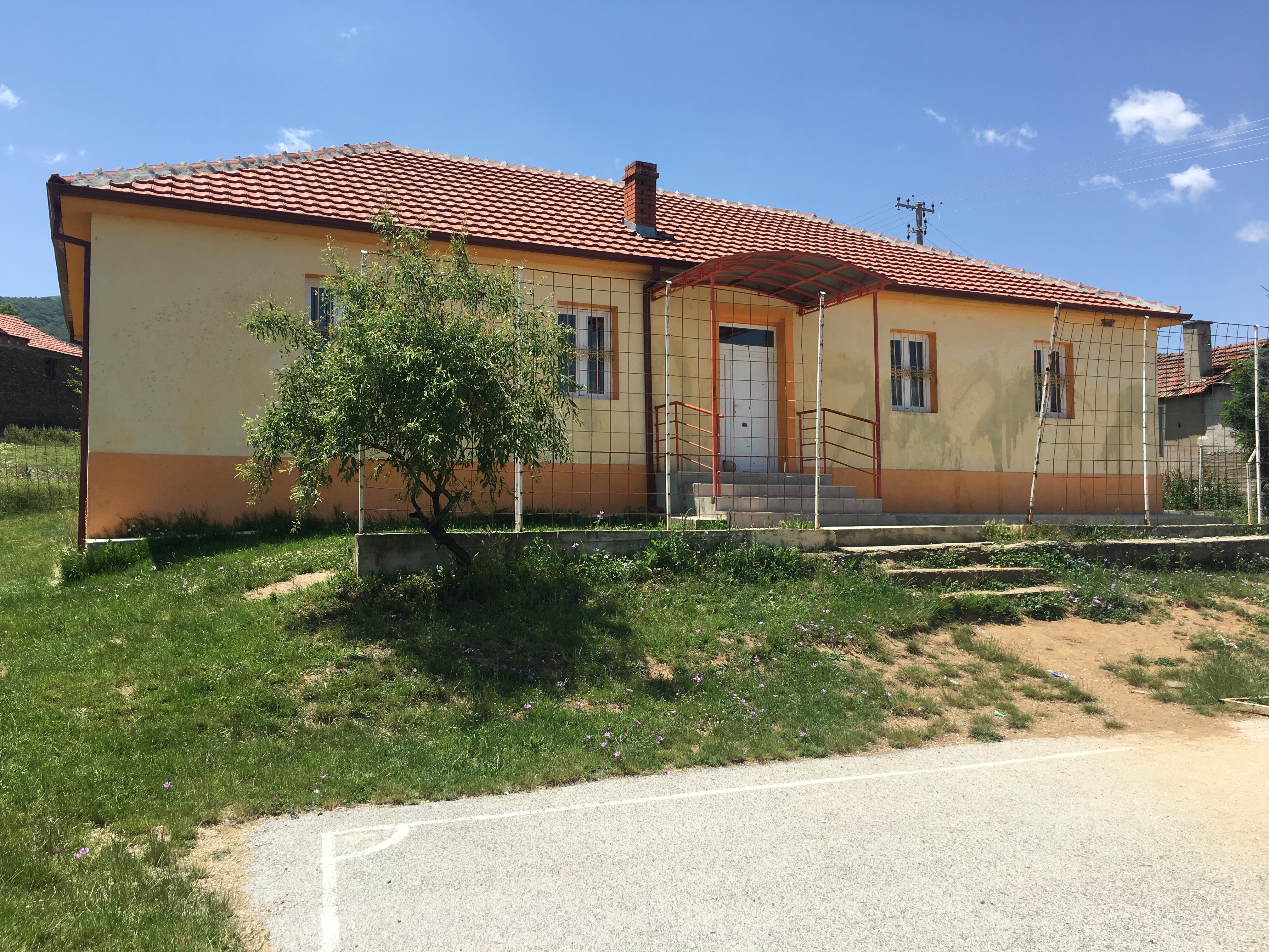 The primary school in the village of Beranci